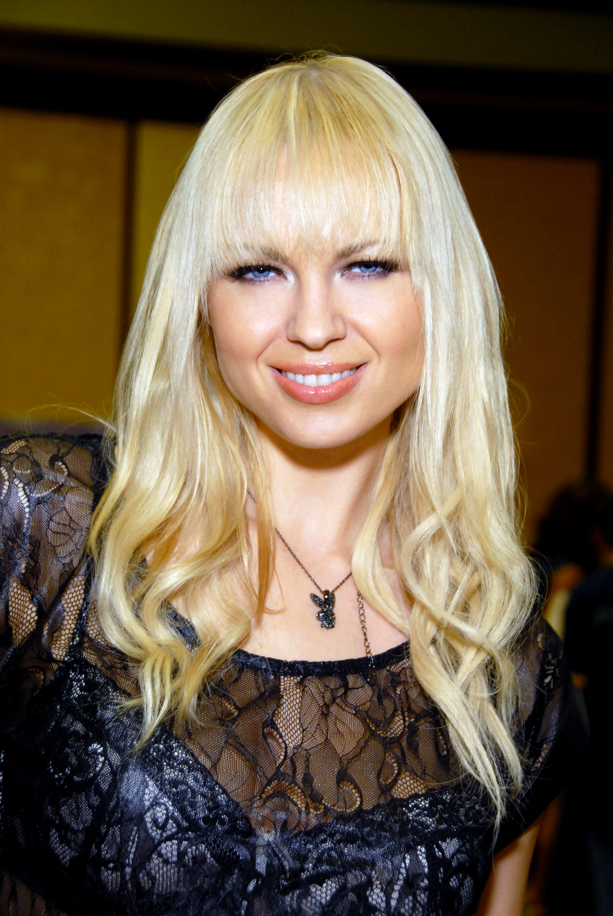 Irina Voronina, Los Angeles, CA on October 1, 2011 - Photo by Glenn Francis of